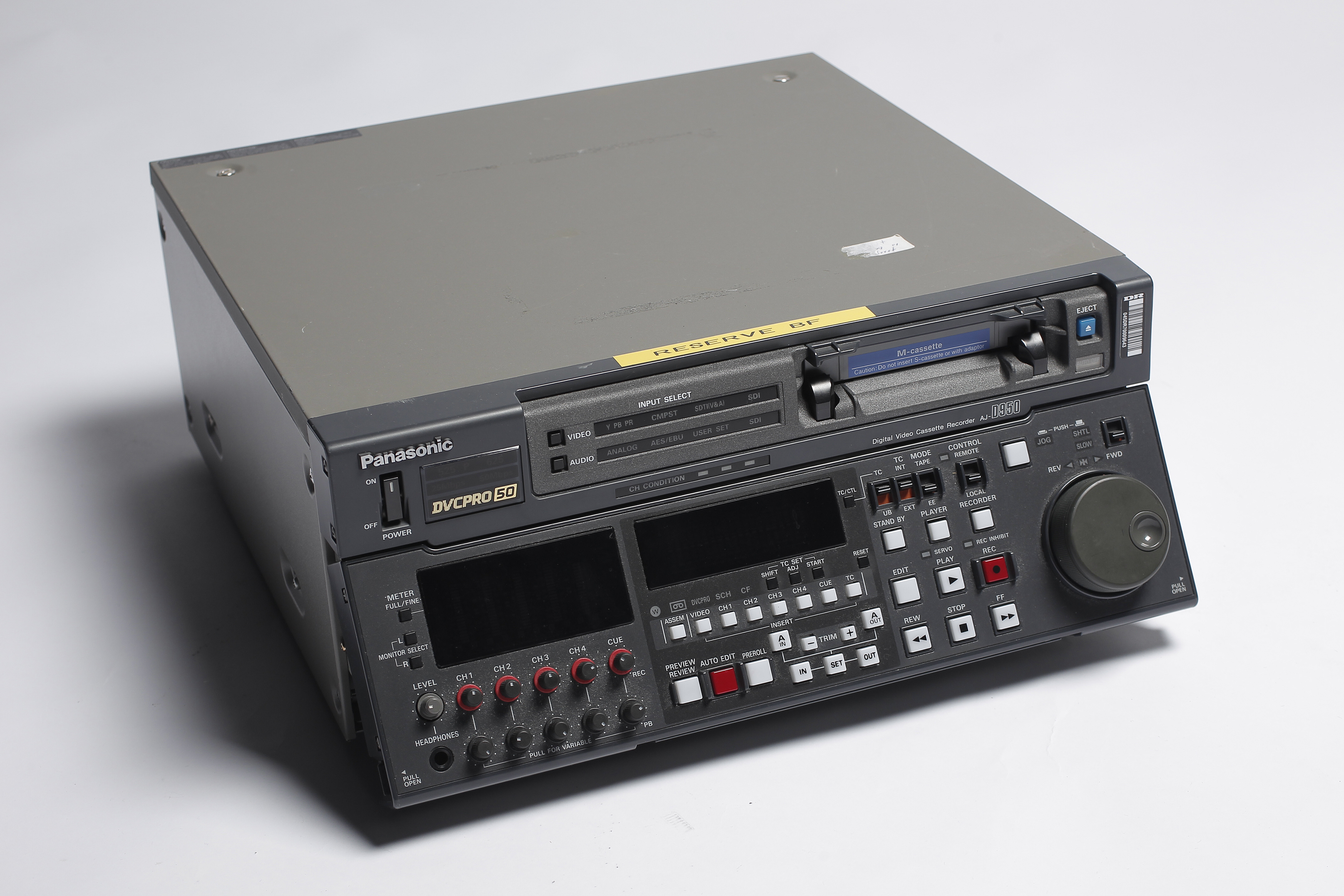 Panasonic DVCPRO tape recorder AJ-D950 The archive of the Danish Broadcasting Corporation